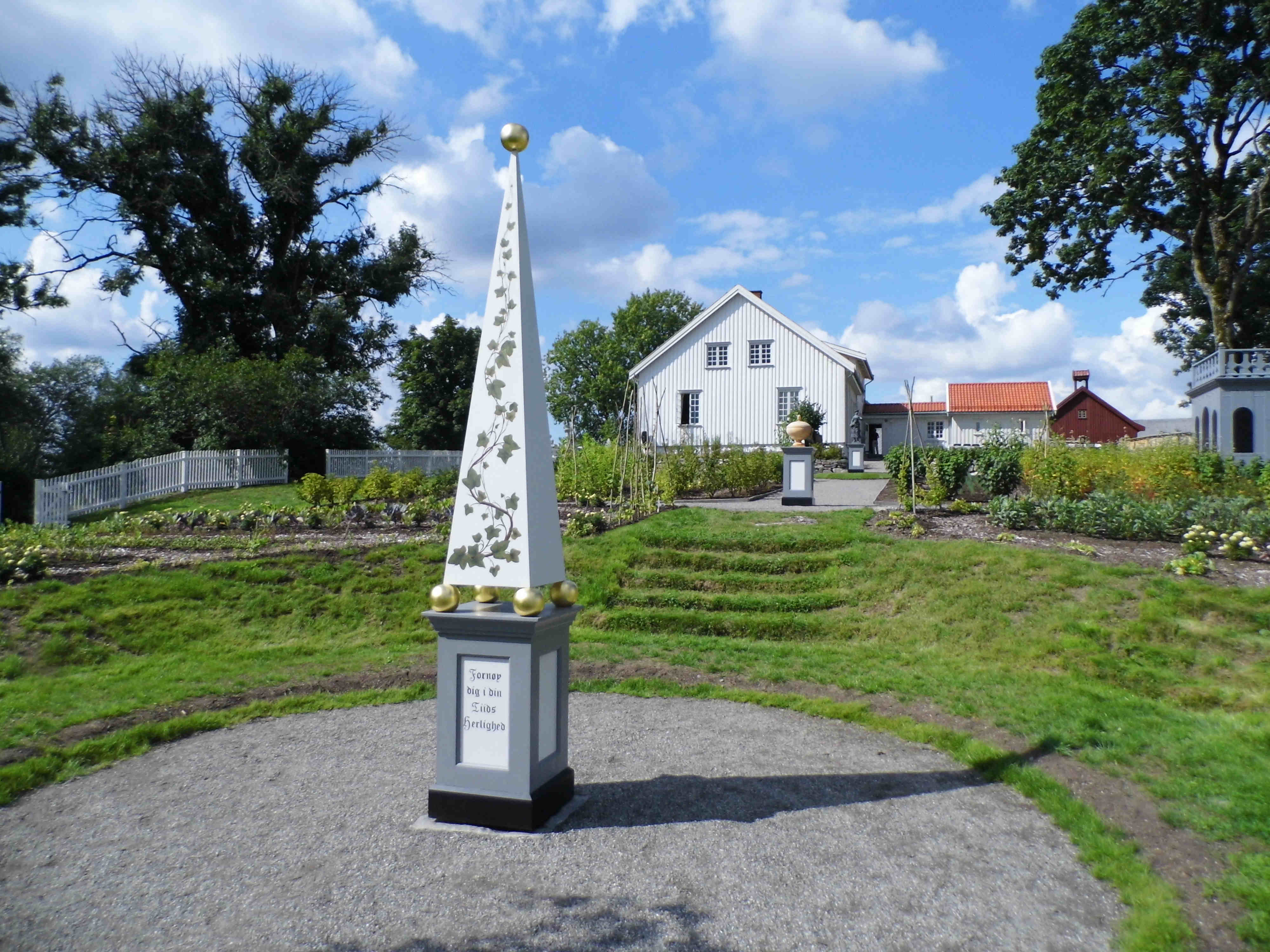 The 18th Century garden at the vicarage in Spydeberg, Norway. Restored as it was when the priest Jacob N. Wilse lived there (1768-1785).